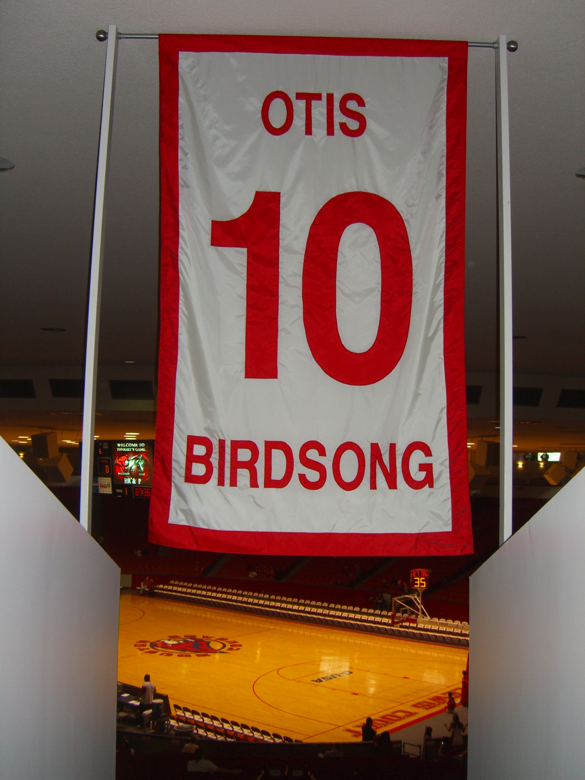 Retained Number of Otis Birdsong in the Hofheinz Pavilion of the University of Houston, Photo by Nick Juhasz.